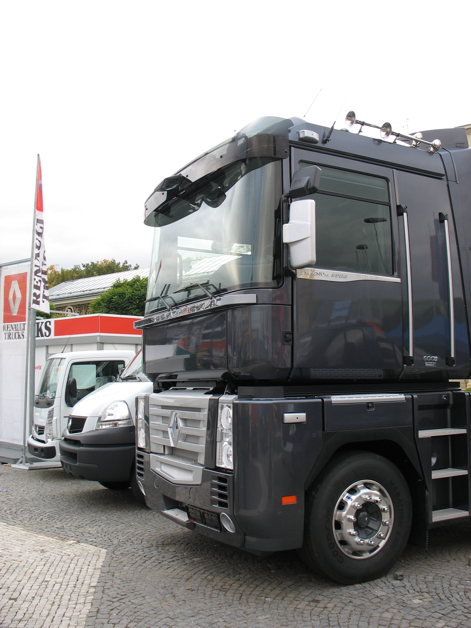 Renault Trucks at the Prague Autoshow-2007. Renault Magnum VEGA truck.